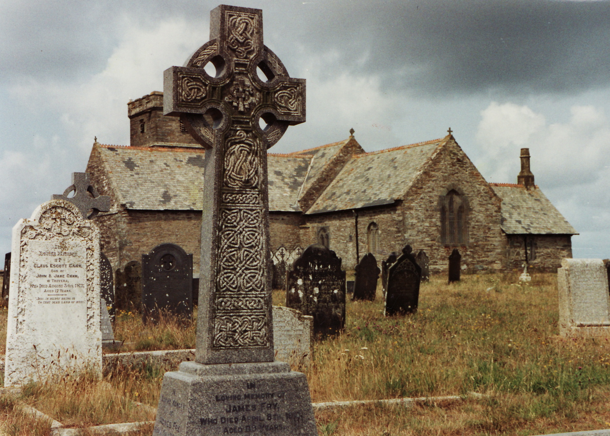 St. Materiane, Tintagel